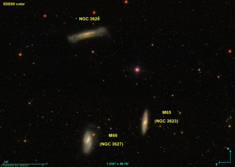 Image created using the Aladin Sky Atlas software from the Strasbourg Astronomical Data Center and SDSS (Sloan Digital Sky Survey) public data.